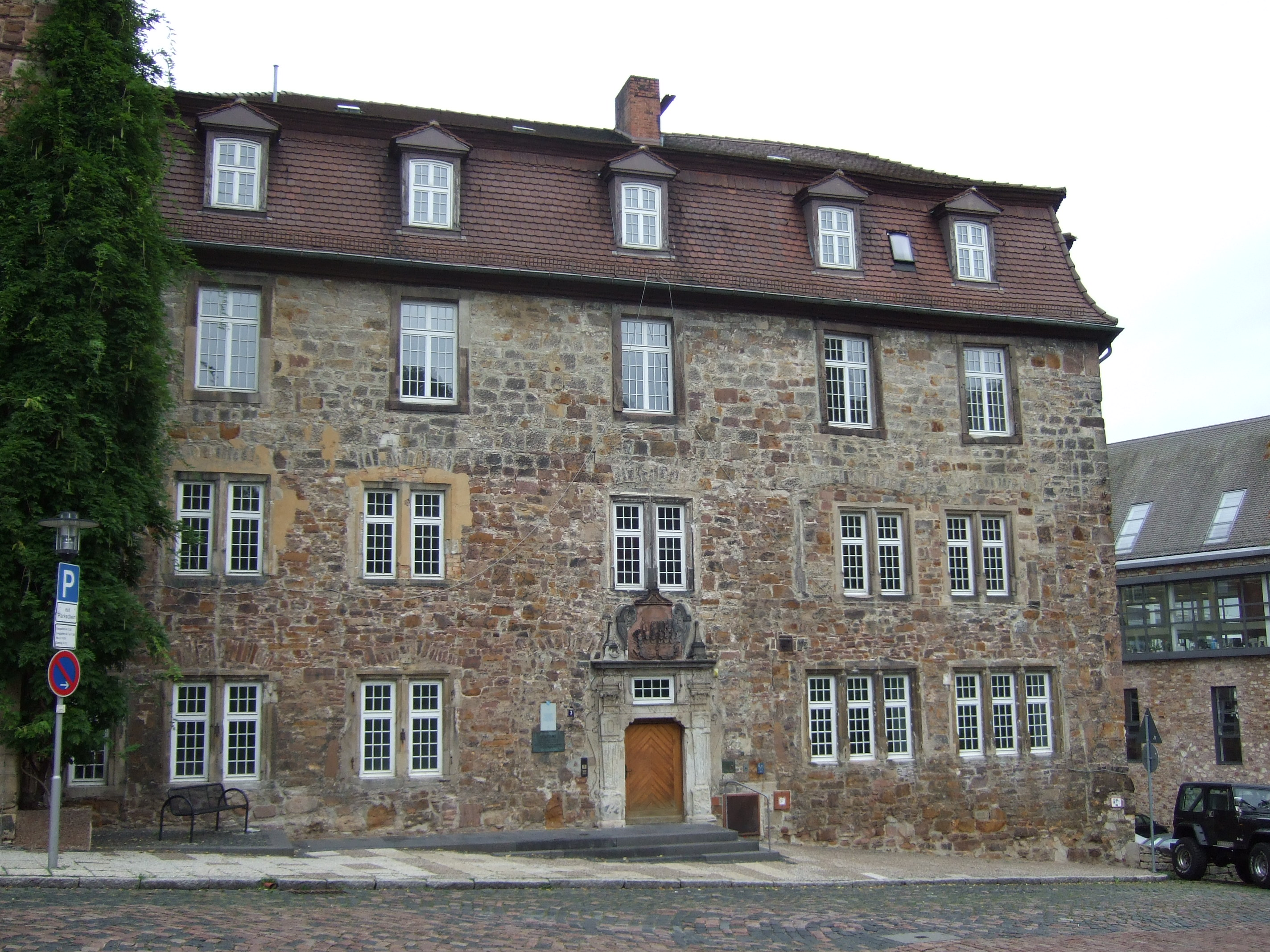 Renthof Kassel